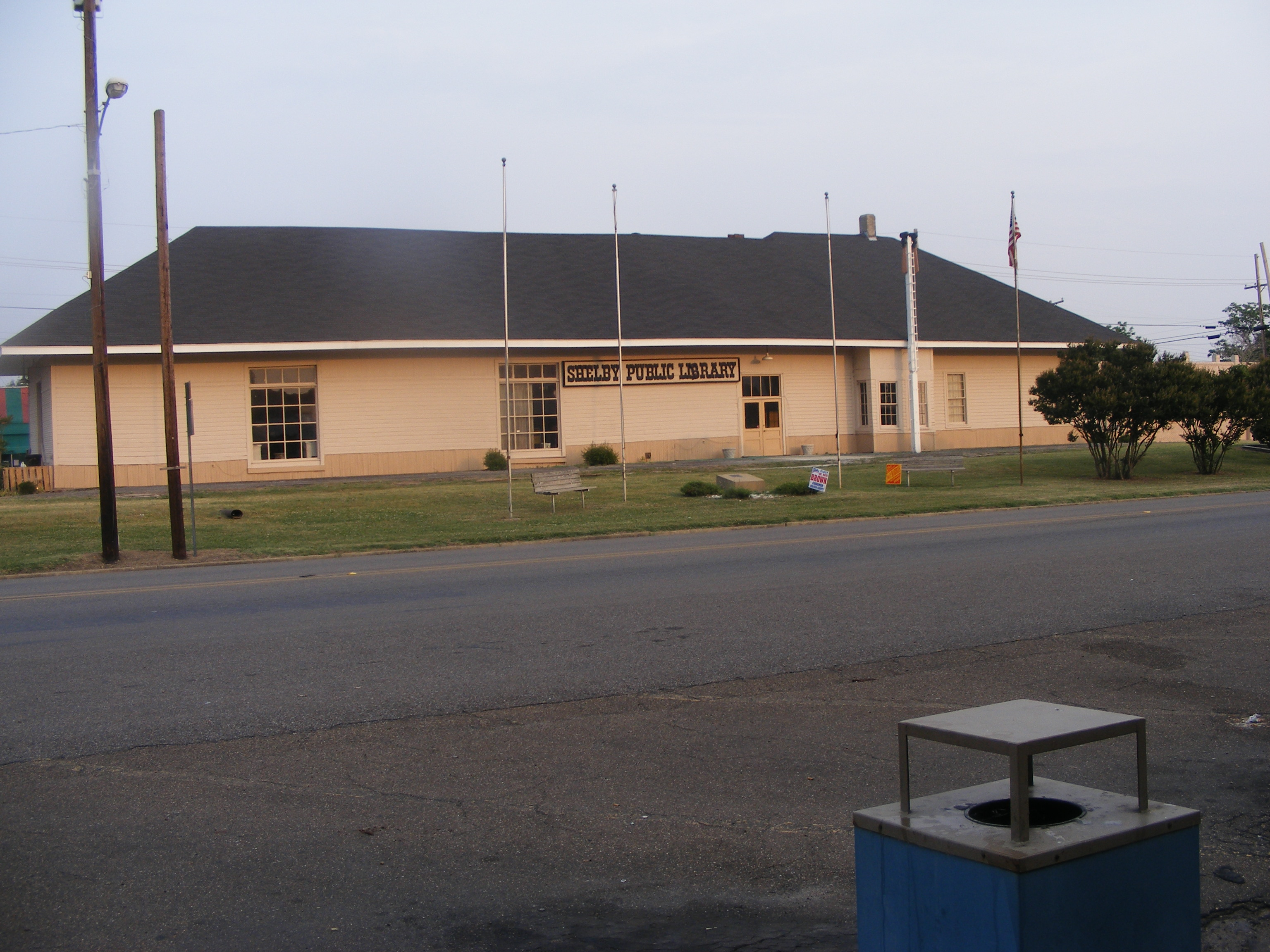 A full view of the Public Library in Shelby, Mississippi.